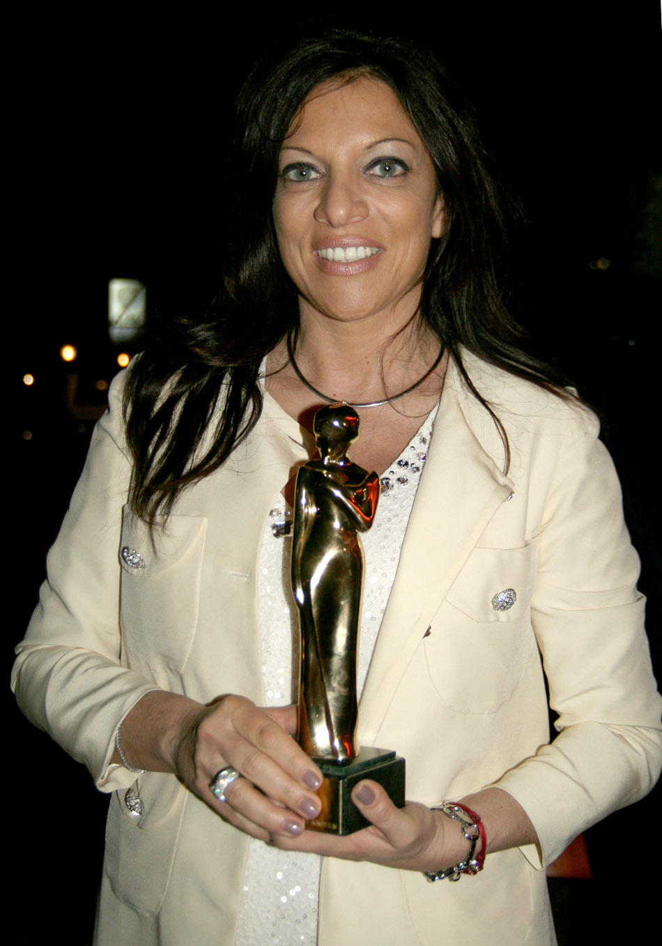 Alice Brauner at the Romy TV awards (Hofburg Imperial Palace in Vienna)